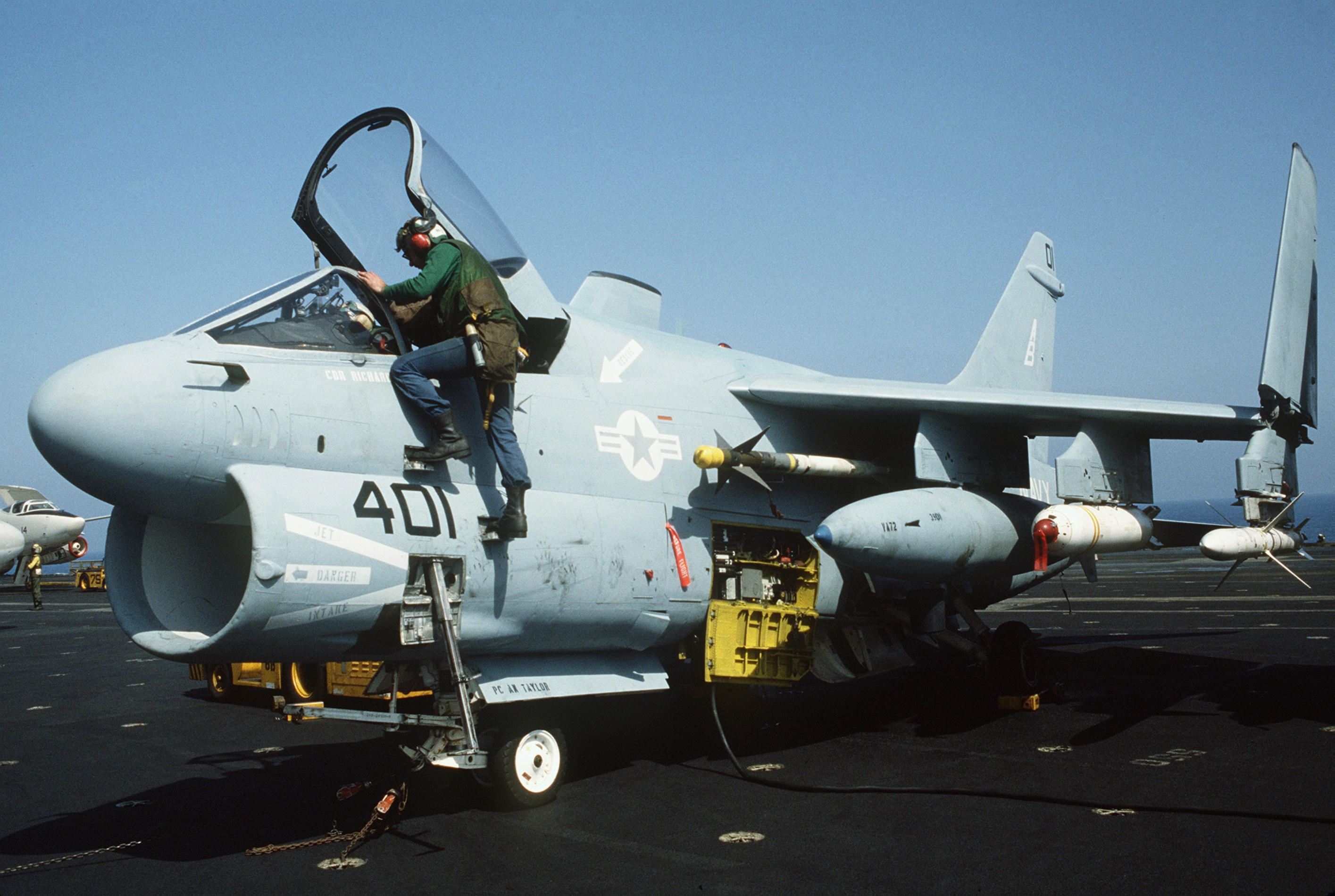 A U.S. Navy flight deck crewman checks an LTV A-7E Corsair II aircraft from attack squadron VA-72 Blue Hawks aboard the aircraft carrier USS America (CV-66) during flight operations off the coast of Libya on 17 April 1986. The aircraft is armed with an AIM-9L Sidewinder missile on the fuselage station, a Mark 20 Rockeye II bomb on the middle wing pylon and an AGM-45 Shrike missile on the outside wing pylon. VA-72 was assigned to Carrier Air Wing 1 (CVW-1) aboard the America for a deployment to the Mediterranean Sea from 10 March to 15 September 1986. On 15 April 1986 America´s aircraft participated in "Operation El Dorado Canyon", the bombing of Libya.